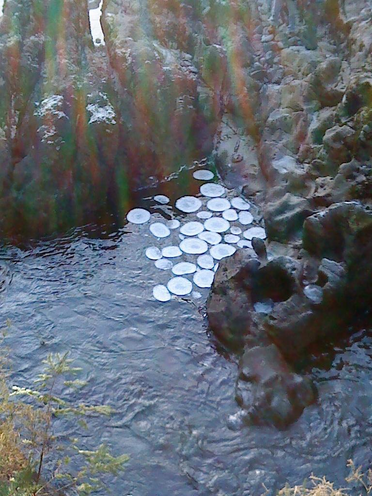 Ice circles in the river Llugwy at Betws-y-coed, 31.12.08. There had been no rain for two weeks, so water levels were low, and after a week of sub-zero temperatures, there was ice on the river's edge in places.